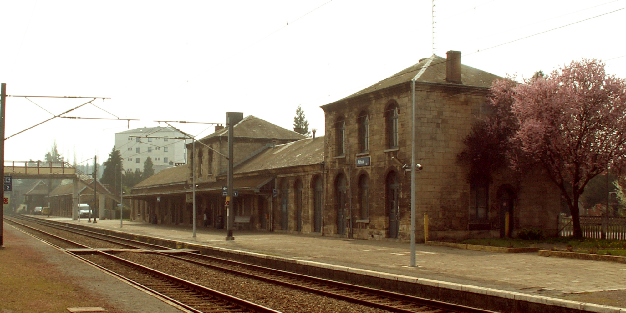 Athus station, as seen from the tracks. The building is not more used for commercial purpose. Passengers should buy their ticket in the train.